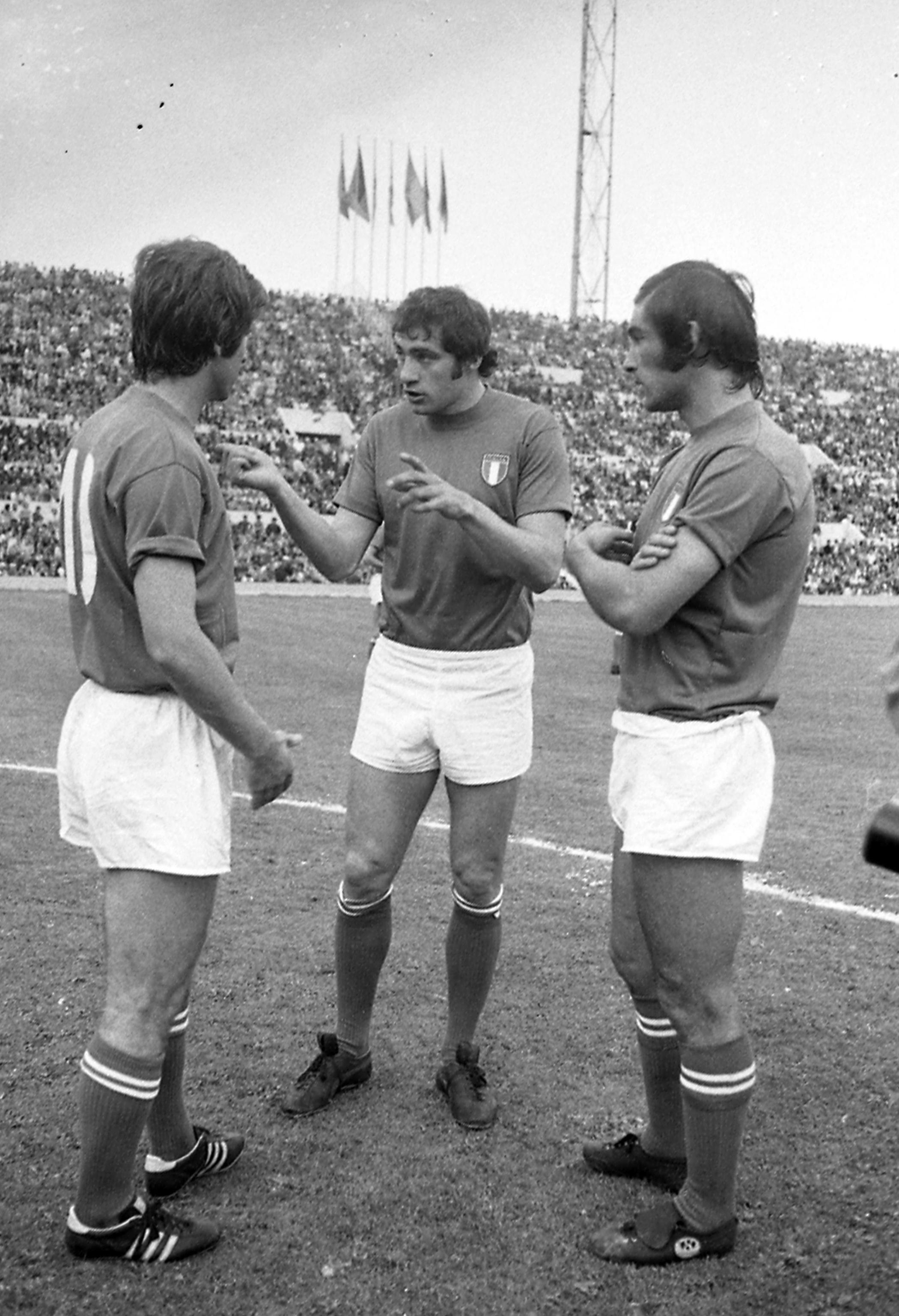 Rome, Olympic Stadium, June 9, 1973. Italy — Brazil 2-0, friendly match. From left to right: Italian footballer Gianni Rivera, Giorgio Chinaglia and Paolo Pulici.